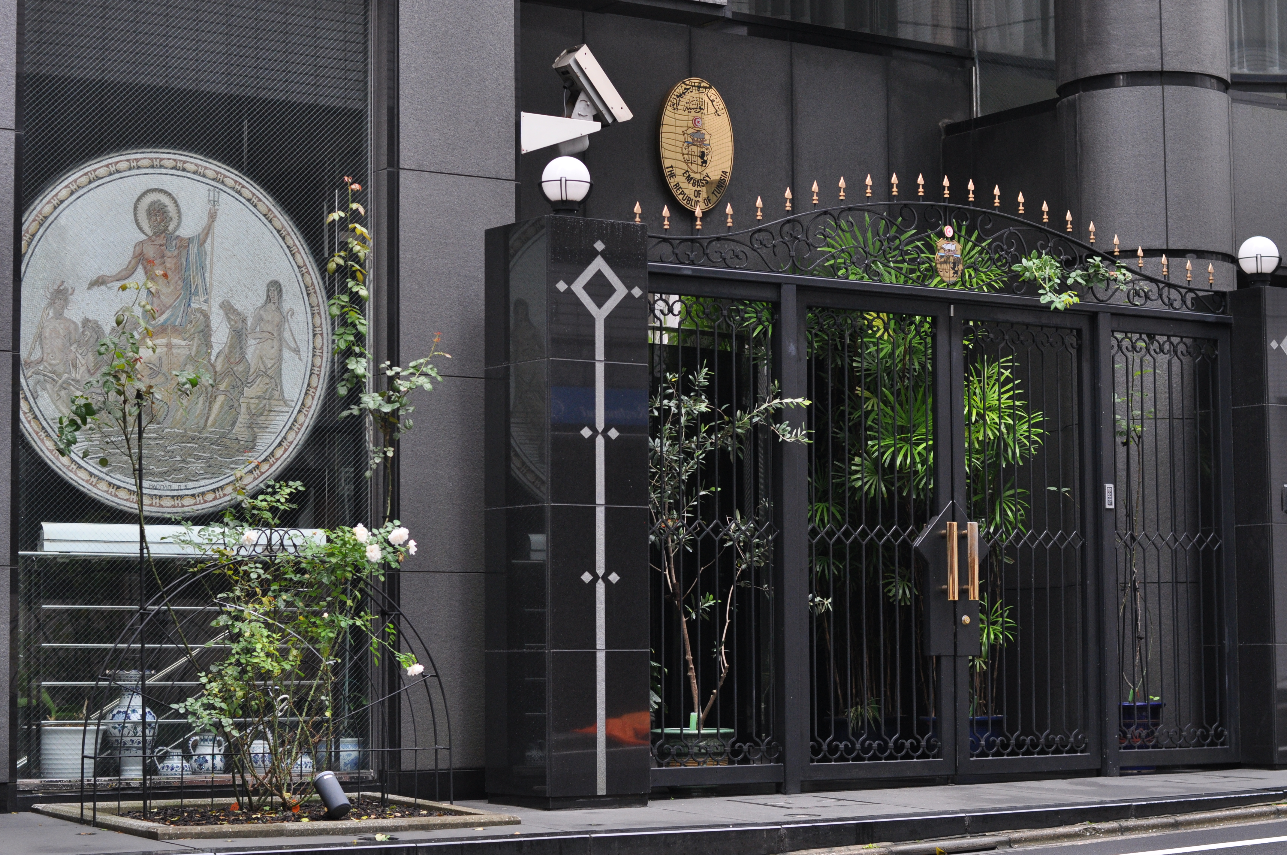 Embassy of Tunisia in Japan